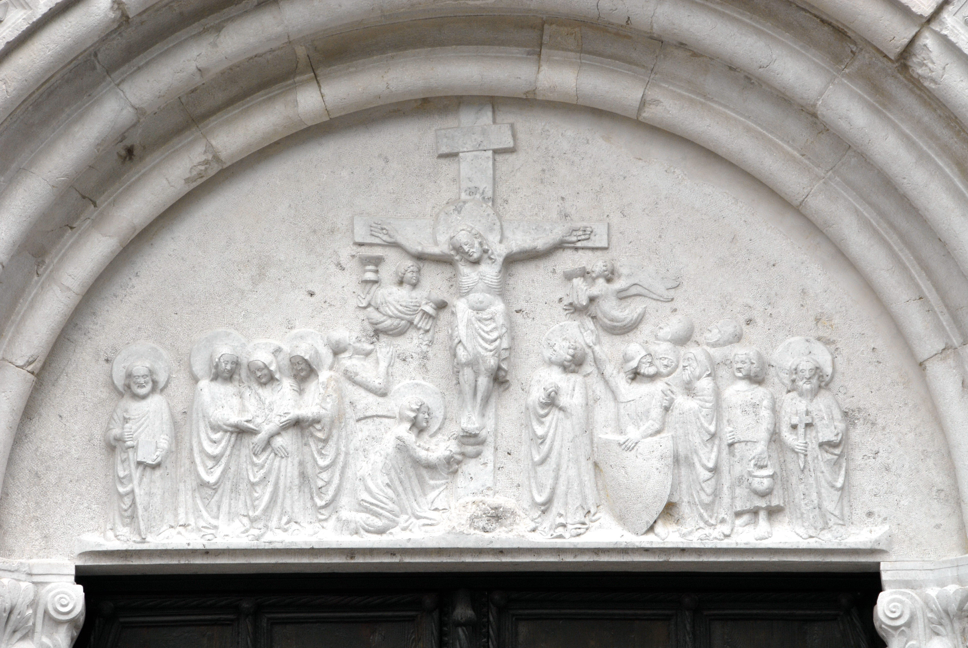 Tympanum at the main portal of the cathedral Saint Andrew apostle in Venzone, municipality Venzone, province Udine, Friuli, Italy